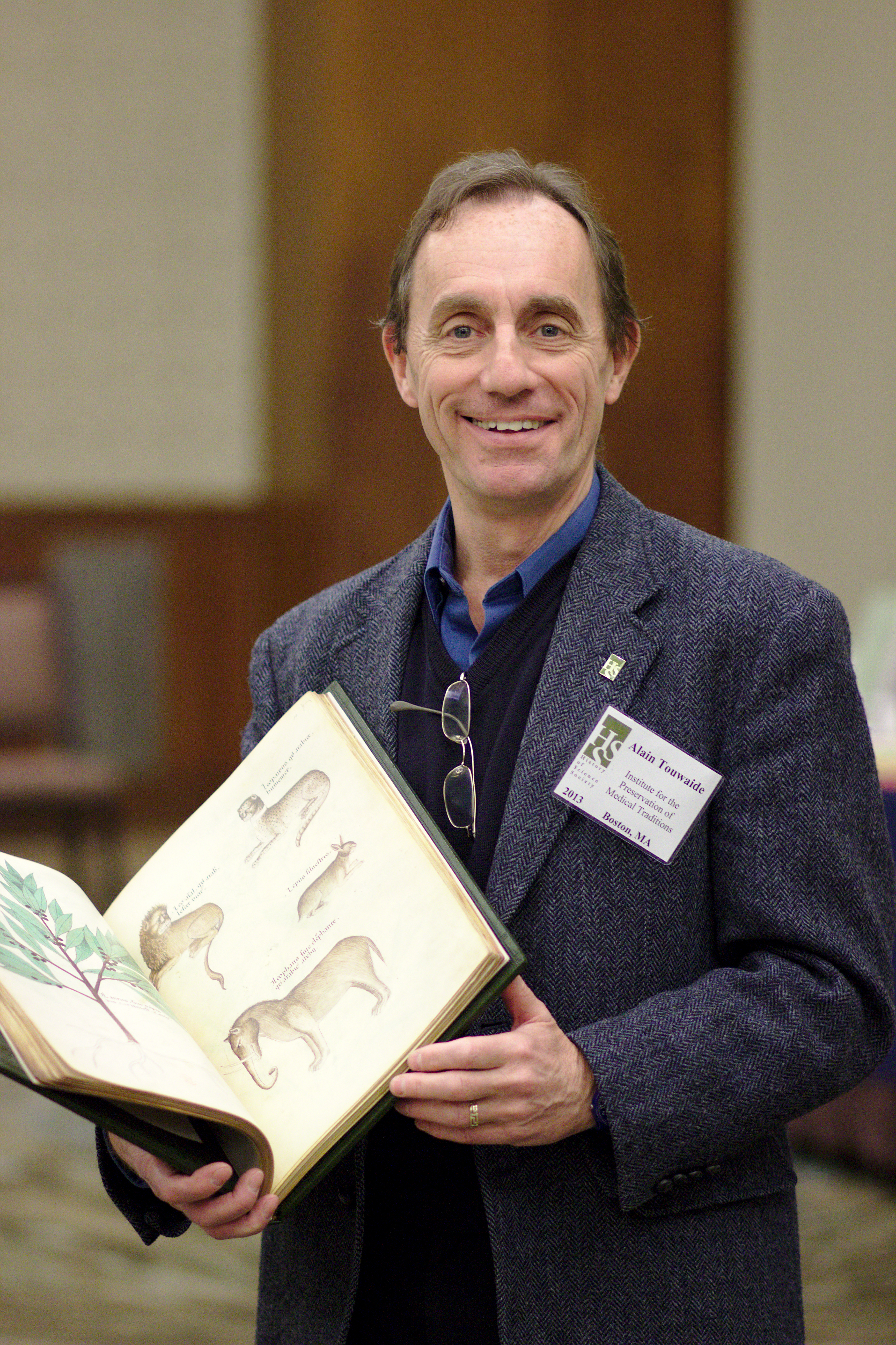 Historian of medicine Alain Touwaide at 2013 annual meeting of the History of Science Society, in Boston, Massachusetts.